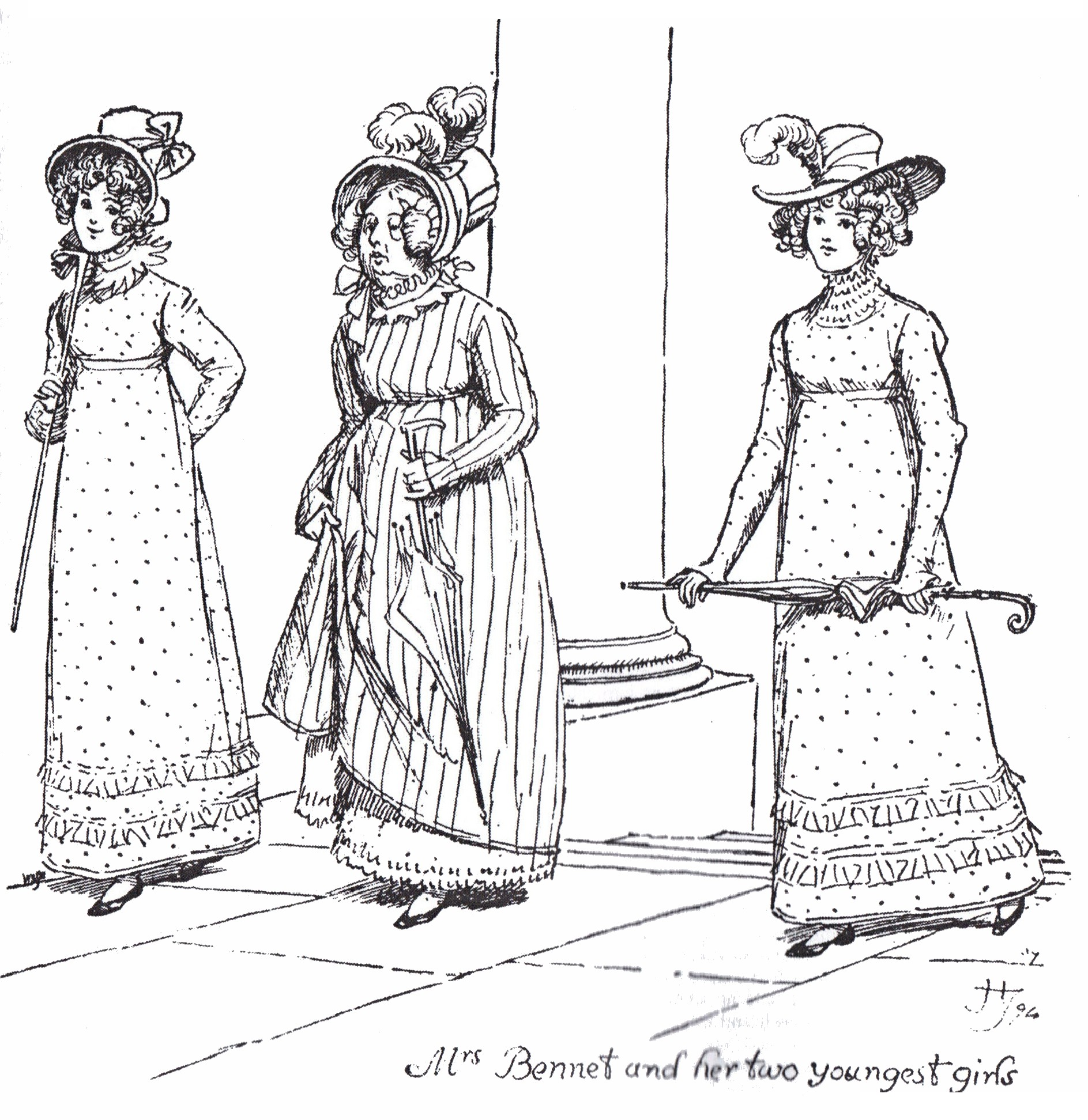 Illustration for Pride and Prejudice, ch. 9: Mrs Bennet and her two youngest girls